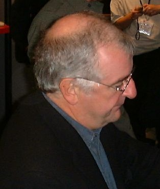 Douglas Adams book signing at ApacheCon depicted person: Douglas Noel Adams (age: 48.62)